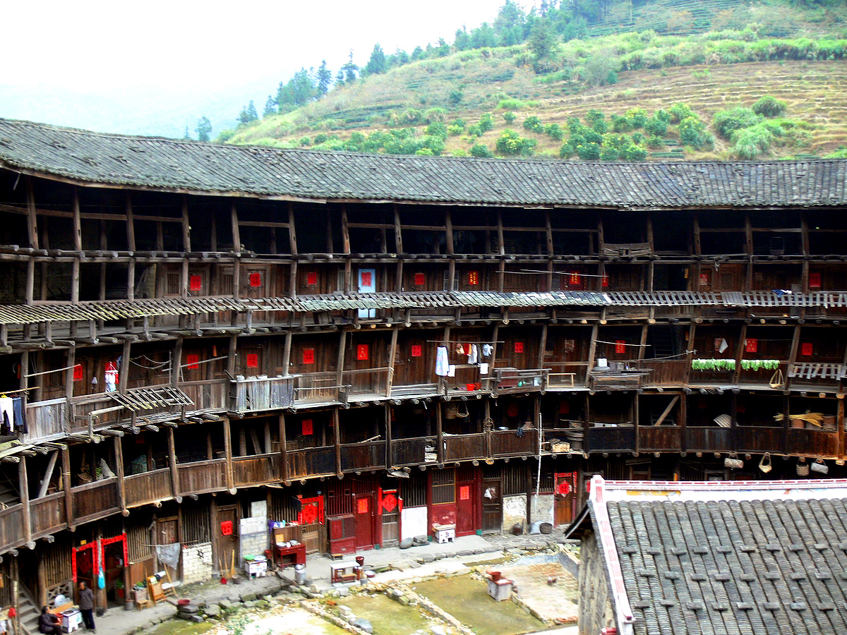 Interior of Yuchanglou, its zigzag structure and part of ancestral hall. Foundation of dismanted minor ring can be seen